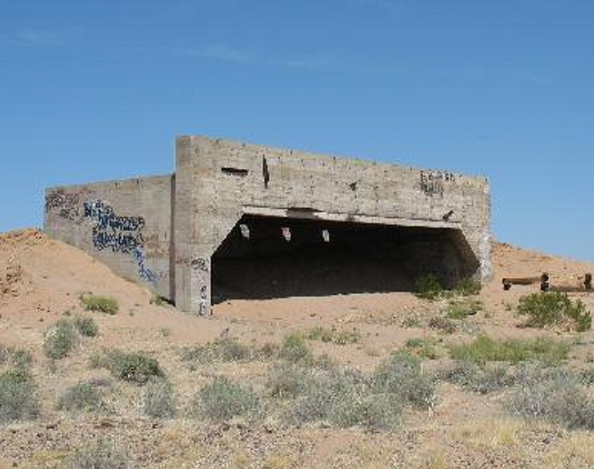 Dateland-Army Air Field sand-filled concrete bunker built c. 1943, previously used to sight the machine guns of the B-25 Mitchell bombers.